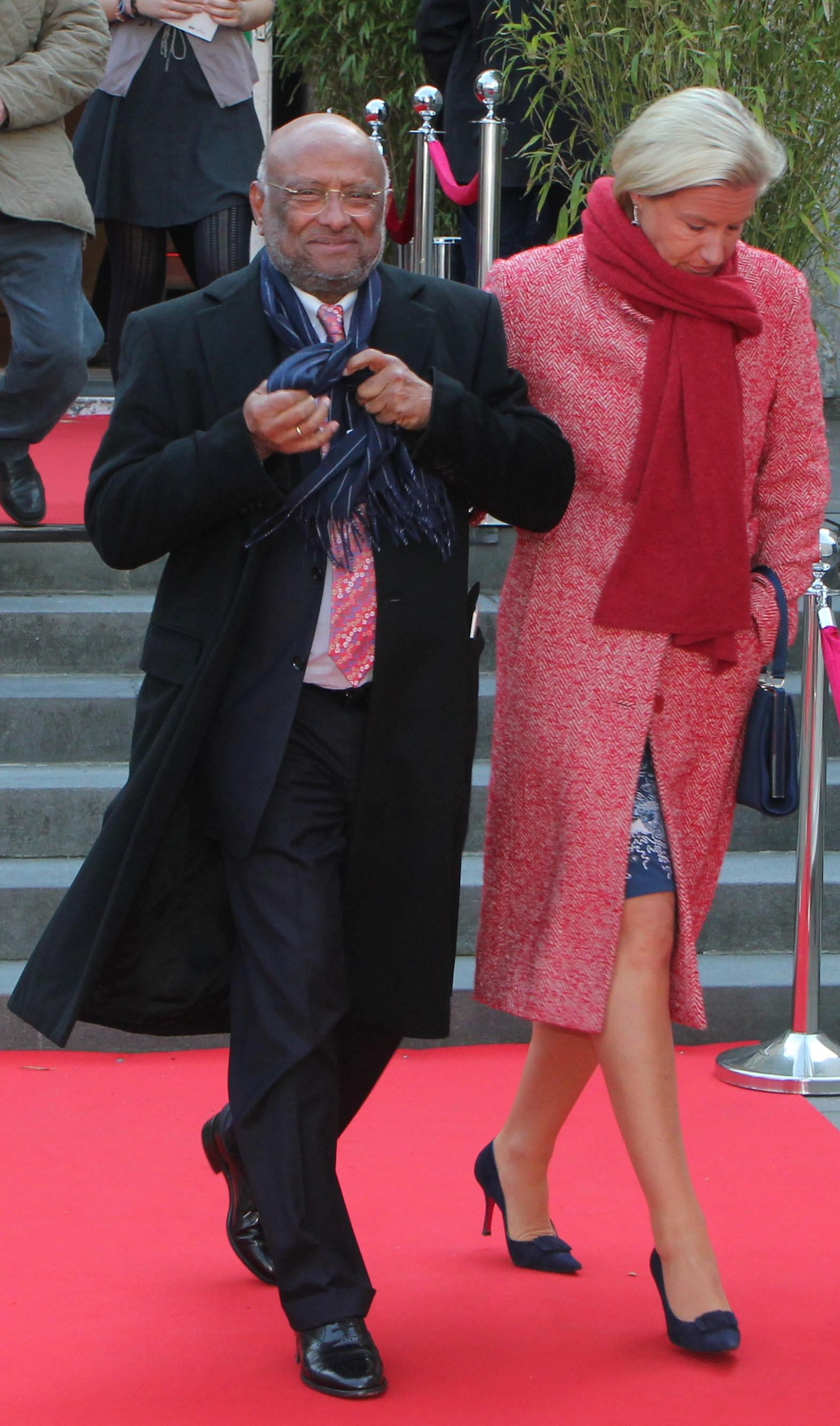 Former Hamburg Senator Ian Karan with his wife Barbara at the matinée on the occasion of the 85th birthday of Siegfried Lenz, held in the Rolf-Liebermann-Studio of the NDR in Hamburg on March 20, 2011.